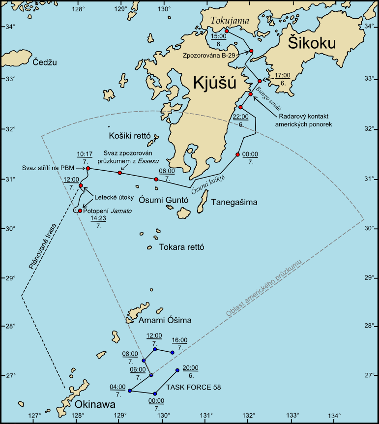 Last journey of battleship Yamato. April 6-7, 1945 Česky: Poslední plavba bitevní lodě Jamato 6. až 7. dubna 1945